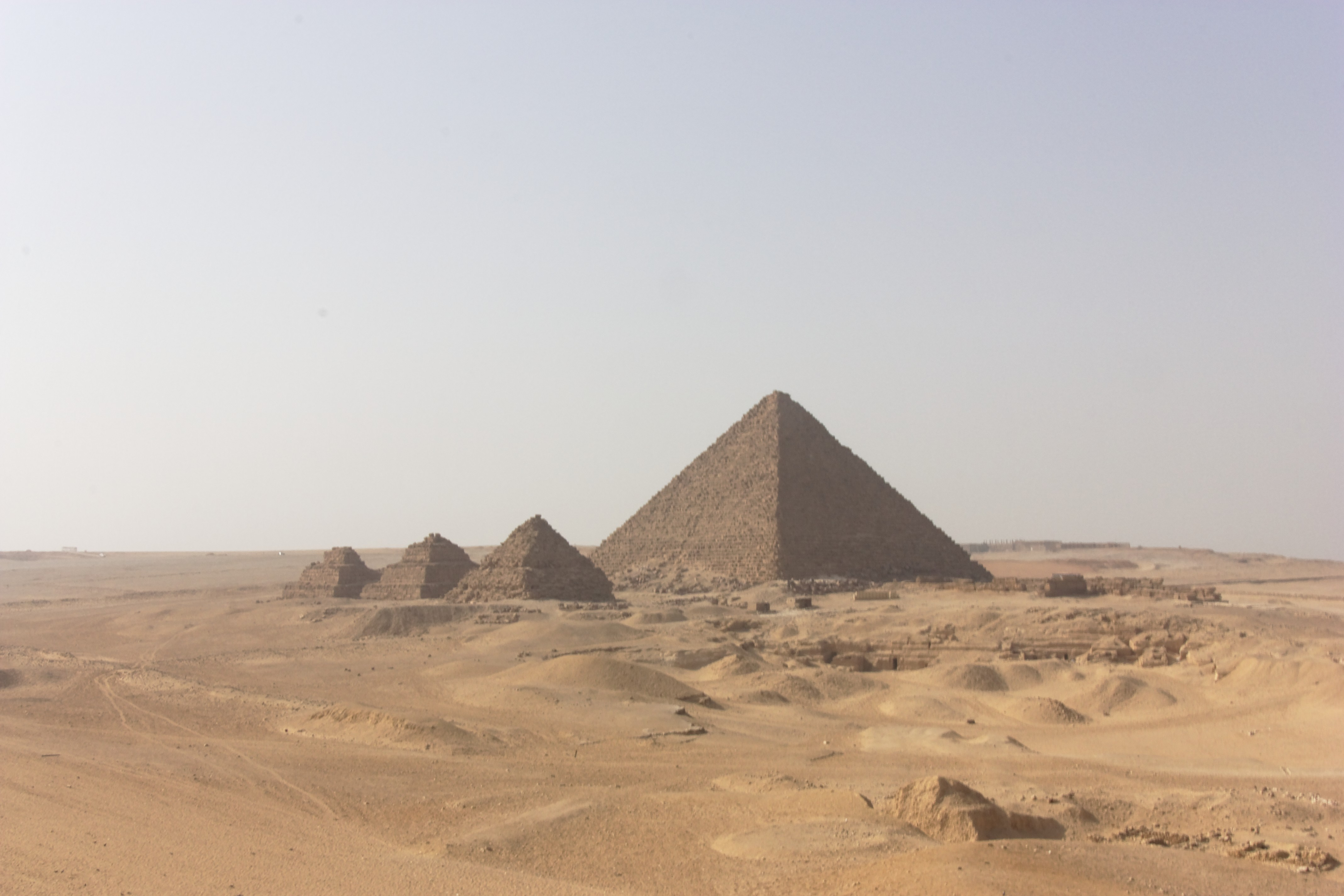 The Mycerinus pyramid(big) and three Pyramids of Queens.